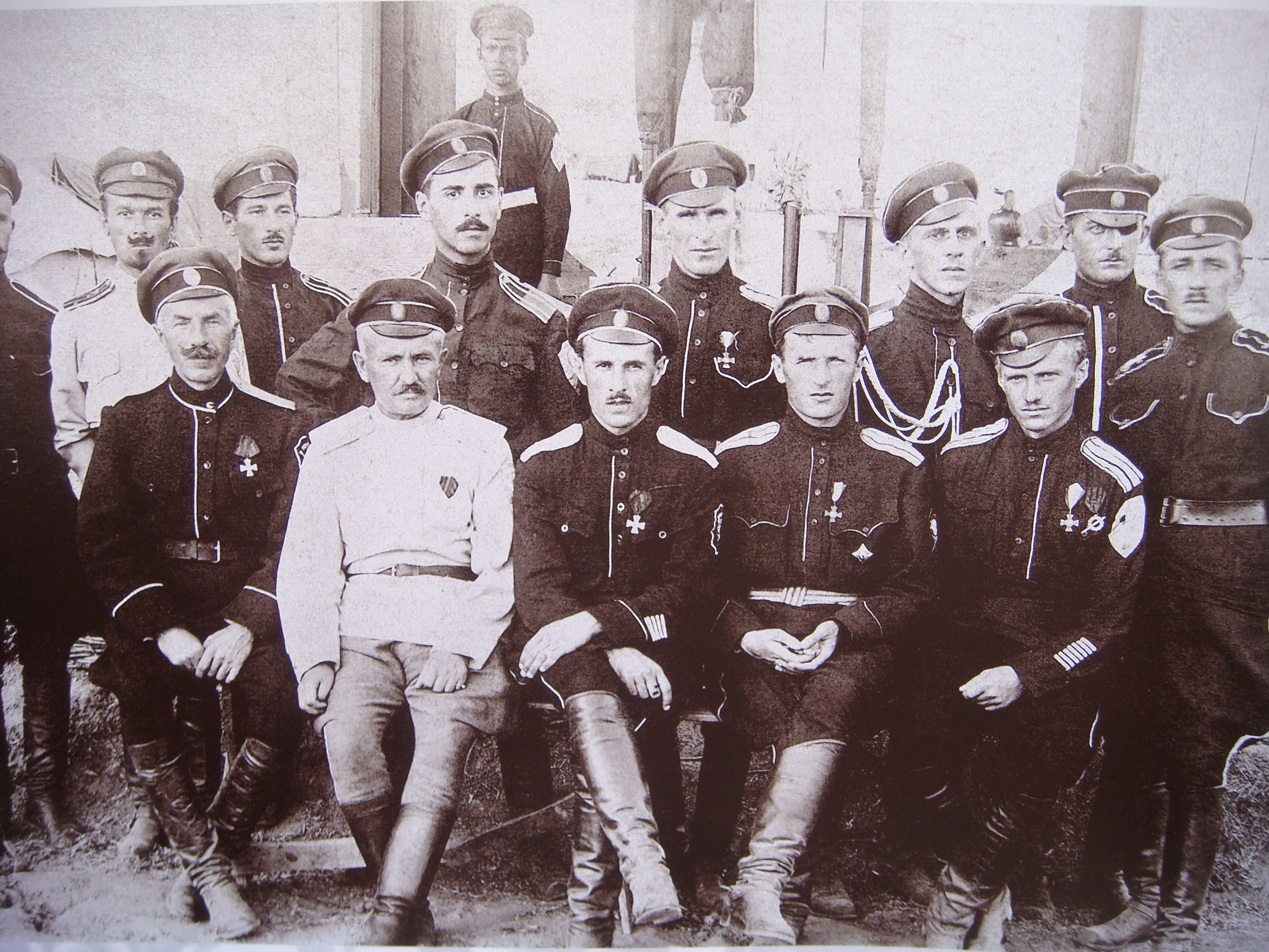 Officers of Kornilov Regiment in Gallipoly Camp of Russian Army in 1921.